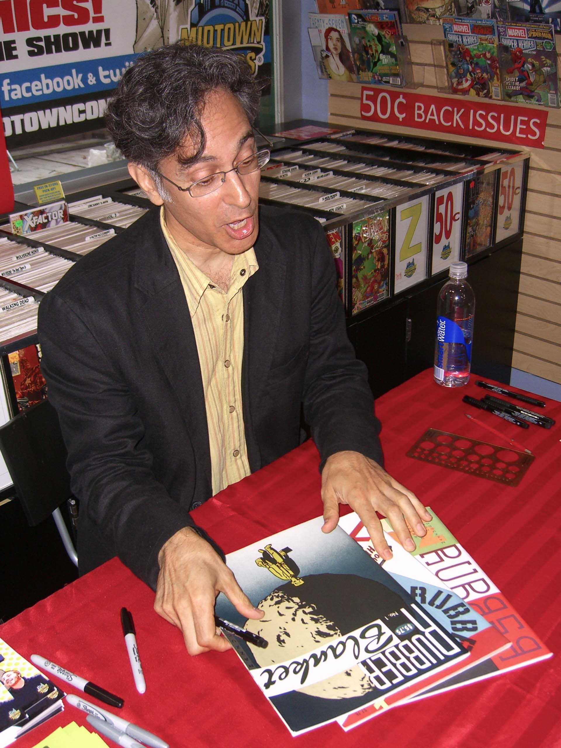 Comic book creator David Mazzucchelli at a June 28, 2012 signing for Daredevil Born Again: Artist's Edition at Midtown Comics Downtown in Manhattan. In the photo, Mazzucchelli is signing a a copy of his 1991 - 1993 comics anthology series, Rubber Blanket. This photo was created by Luigi Novi. It is not in the public domain, and use of this file outside of the licensing terms is a copyright violation.